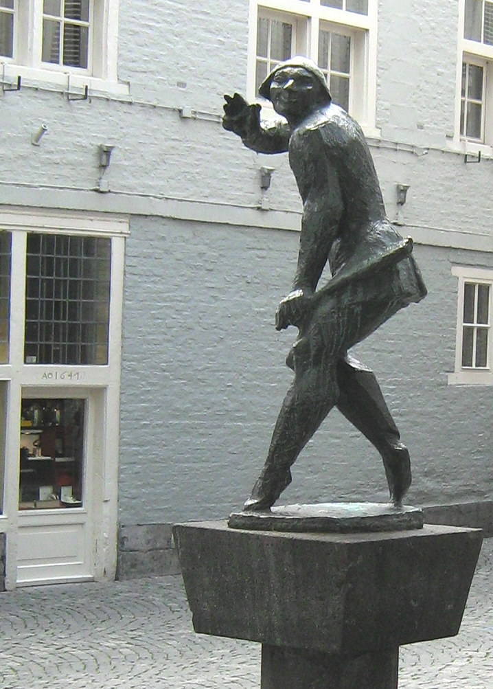 Mestreechter Geis